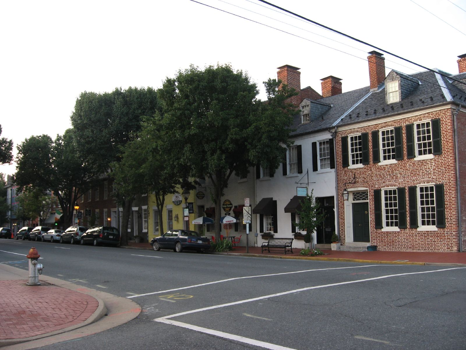 The intersection of Caroline Street (Northbound US BUS 17) and Charoltte Street in Historic Downtown Fredericksburg, Virginia.